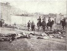 Shortly after the first Russian retreat from Persie, and before the arrival of Mar Shimon's Army, the Persian Assyriahs began to flee to the protection of the American and the French flags in Urmia. But they were intercepted by the Moslems, who killed hundreds of them and carried their women captives.